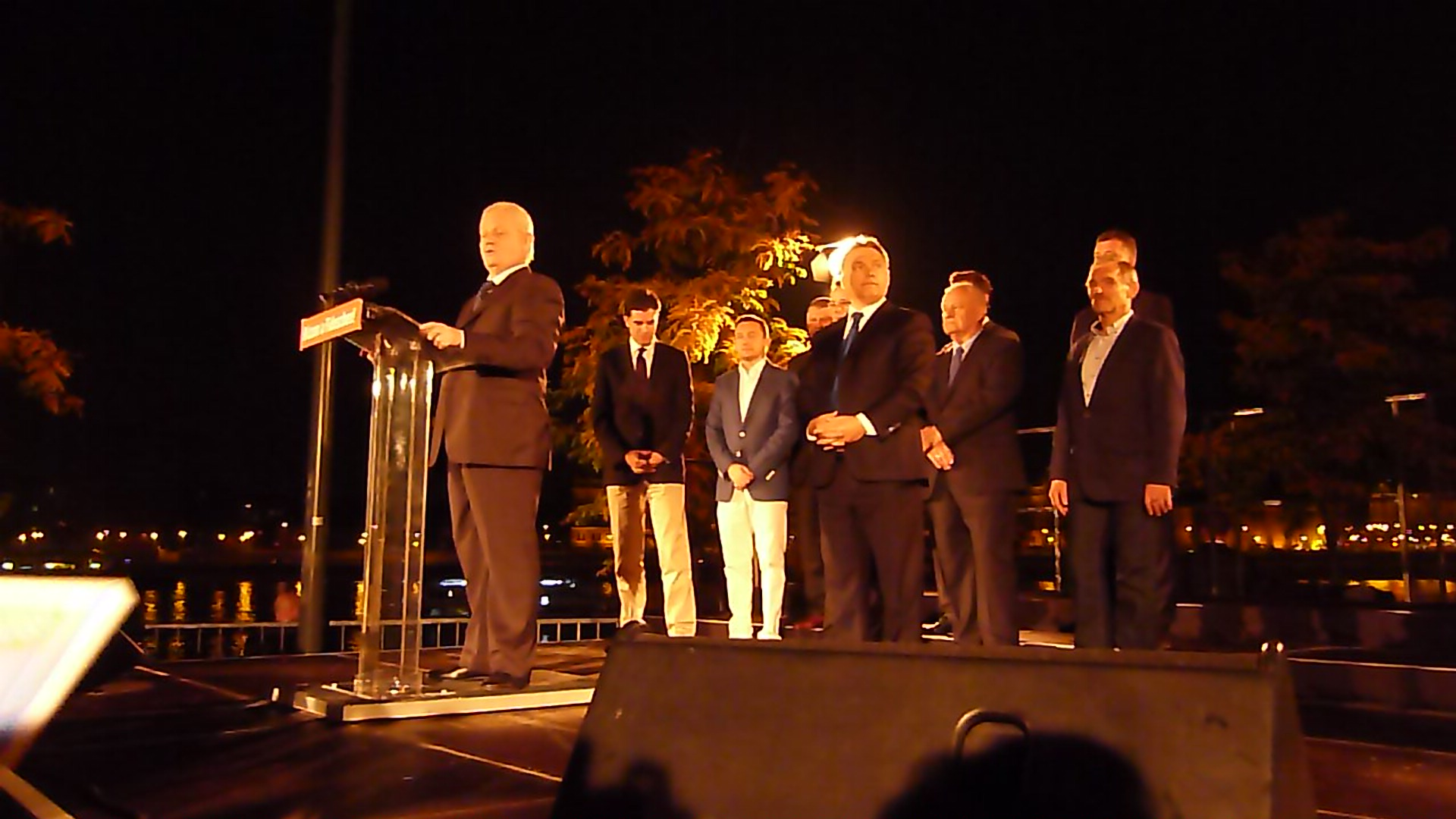 Live on the 12nd of October, 2014. Elections in Hungary. Budapest, Bálna. In front of the Bálna and in Bálna, Election Center of the FIDESZ Hungarian Civil Party. Tarlós István and Orbán Viktor speaking. ©© Derzsi Elekes Andor, Budapest, 2014, A kép és filmfelvételek egészben, vagy részletekben másolását, bármilyen úton történő sokszorosítását és felhasználását a szerző ellenérték nélkül, jogutódjaira is kihatóan megengedi. Az engedély kiterjed a kereskedelmi célú hasznosításra is. Kéri azonban nevének feltüntetését a felhasználás során. A Metapolisz sorozat valamennyi képe és filmje Creative Commons alatti valamint kereskedelmi - for profit - célra is felhasználható. Ajánlott hivatkozás: Derzsi Elekes Andor: Metapolisz DVD line